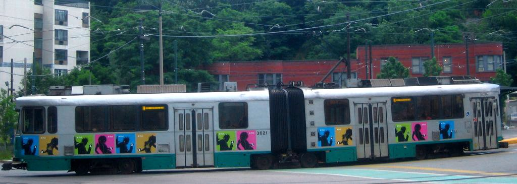 Side view of a Type 7 Green Line streetcar at Heath Street